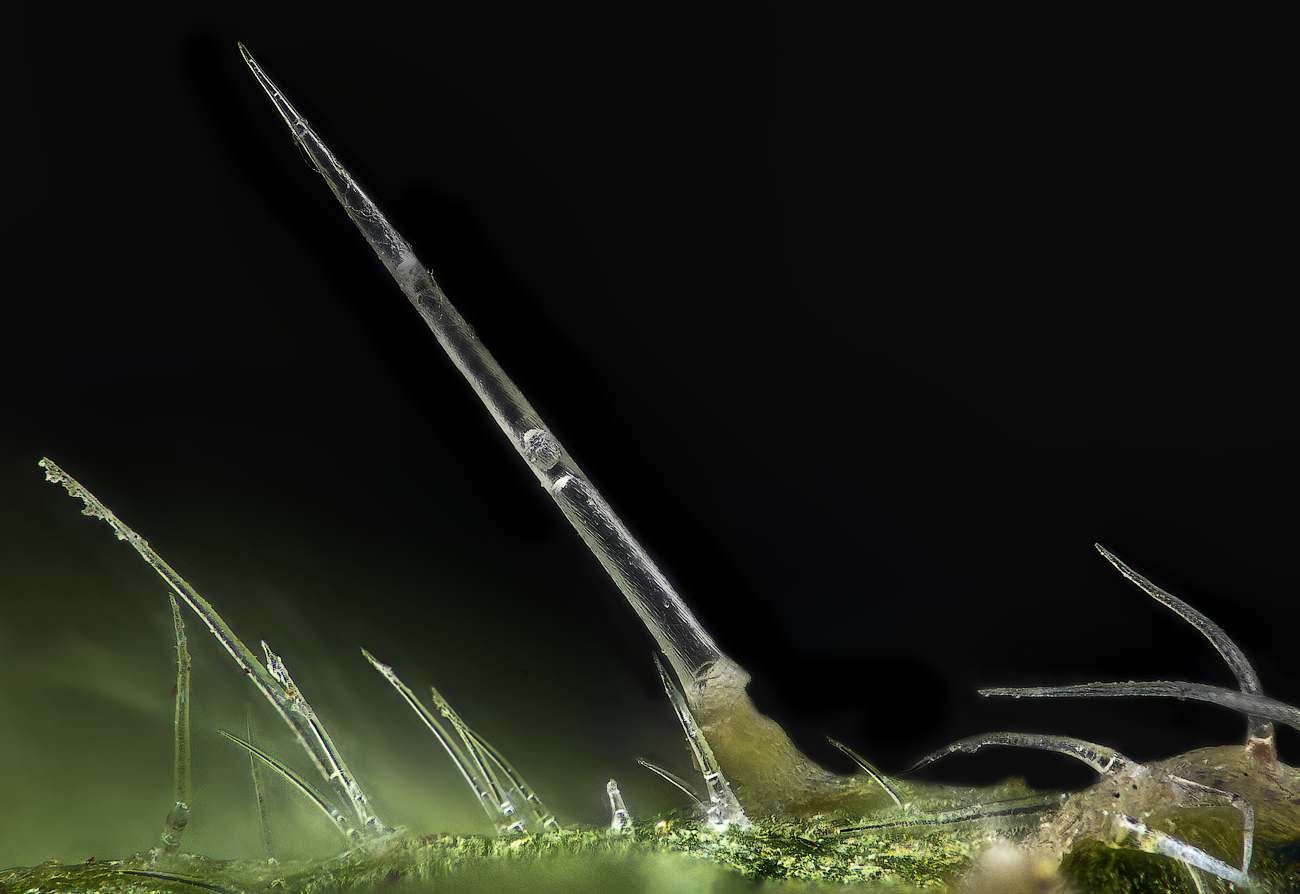 Nettle's spikes